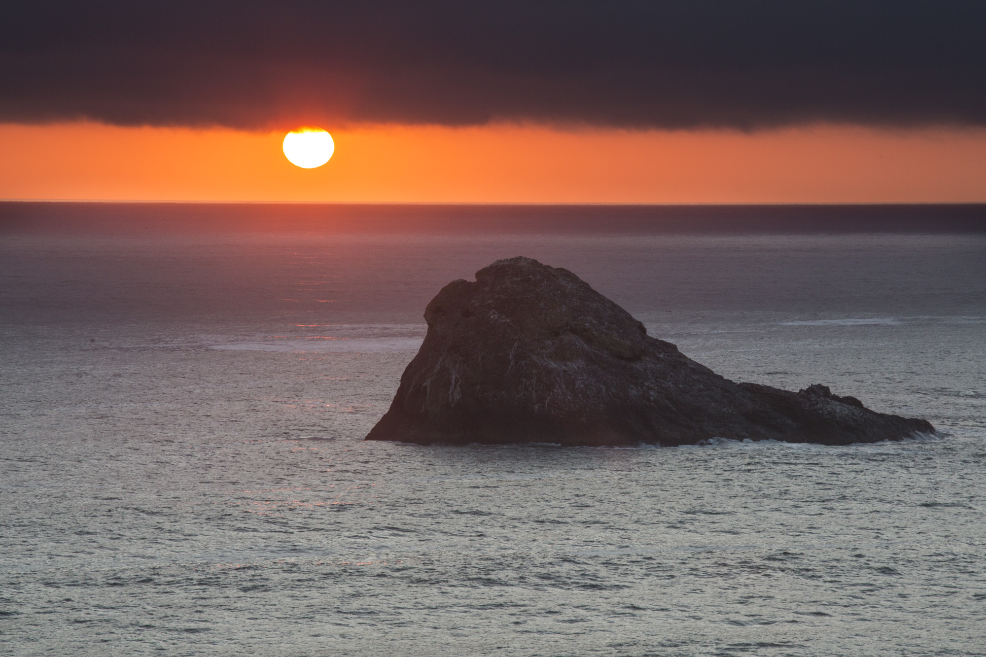 Located off the 1,100 miles of California coastline, the California Coastal National Monument comprises more than 20,000 small islands, rocks, exposed reefs, and pinnacles between Mexico and Oregon. The California Coastal National Monument is a biological and scenic treasure. Its thousands of islands, rocks, exposed reefs, and pinnacles are part of the near shore ocean zone, which begins just off shore and ends at the boundary between the continental shelf and continental slope. The Monument, established by presidential proclamation in 2000, provides feeding and nesting habitat for an estimated 200,000 breeding seabirds, as well as forage and breeding habitat for marine mammals including the southern sea otters and California sea lions. For more information visit